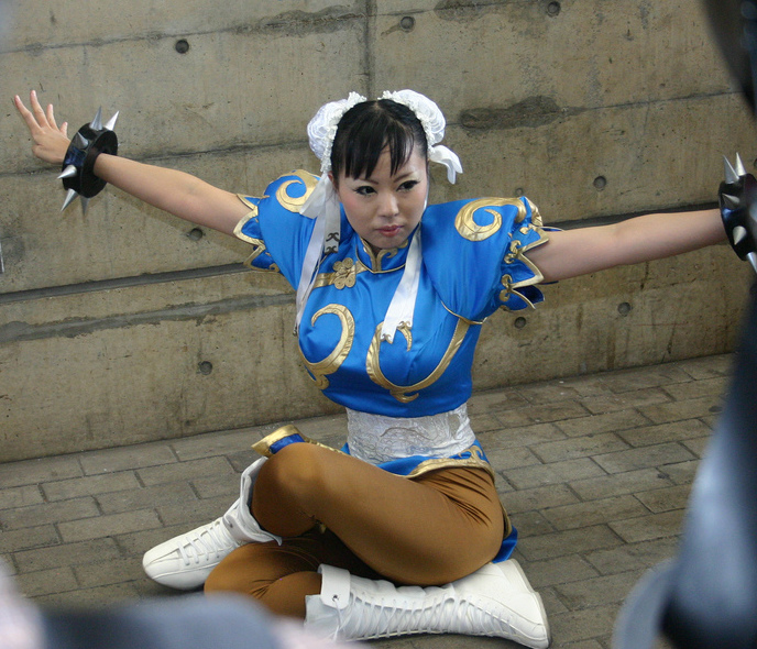 This photo was taken on September 22, 2006 using a Canon EOS Digital Rebel.